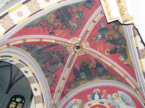 Chapel of the Martyrs, Basilica in Katowice Panewniki, Poland.